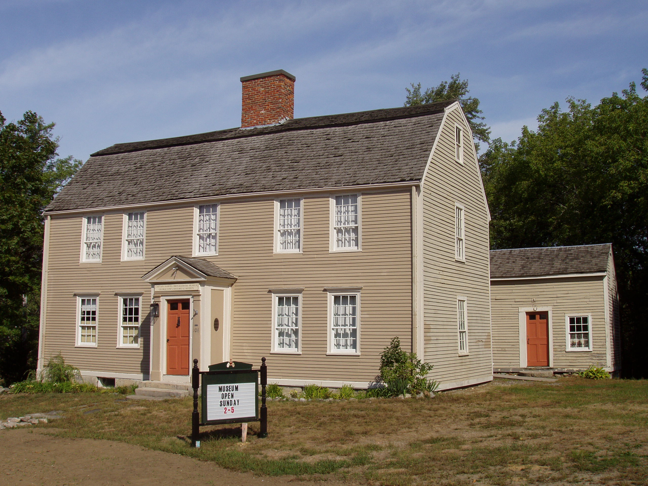 Brocklebank-Nelson-Beecher House - Georgetown, Massachusetts. Photograph taken by me, September 2005.